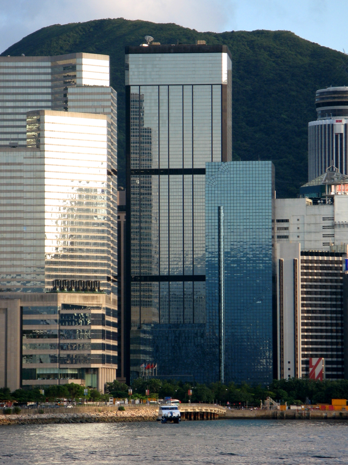 Revenue Tower, Hong Kong 稅務大樓